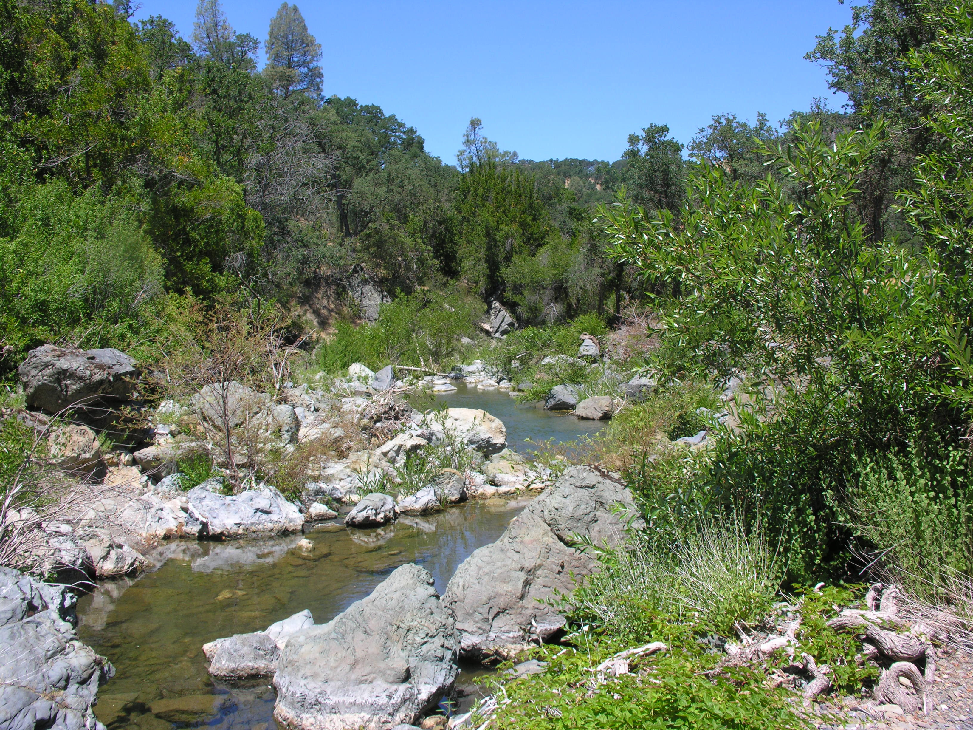 Photograph of Isabel Creek in Santa Clara County, California